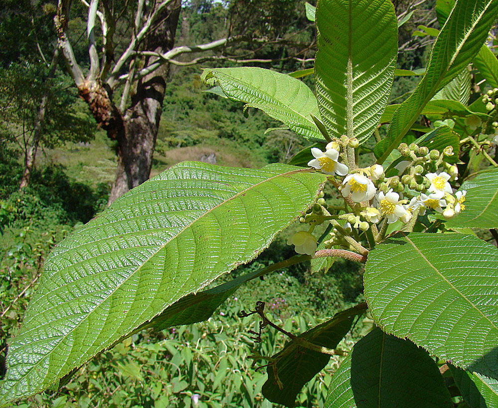 Native from Honduras to Panama. The genus goes by names such as Moco and Moquillo. Photo from near Boquete, Panama. In context at